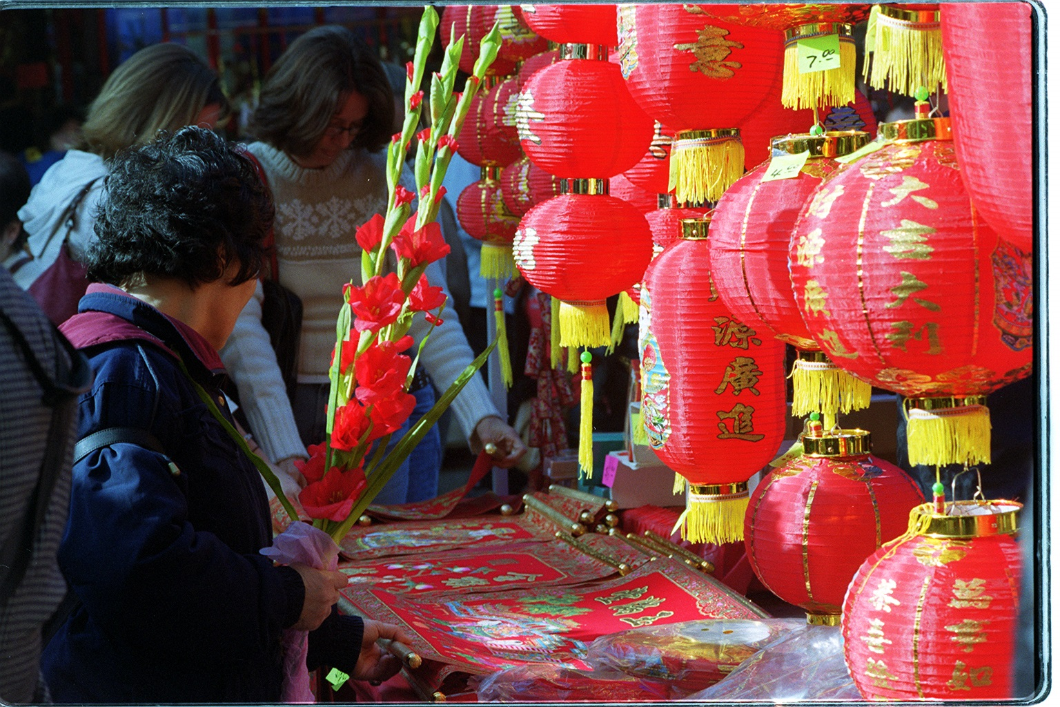 Red lanterns on display during Chinese New Year in San Francisco's Chinatown 2004, The Year of the Monkey. Photo byNancy Wong